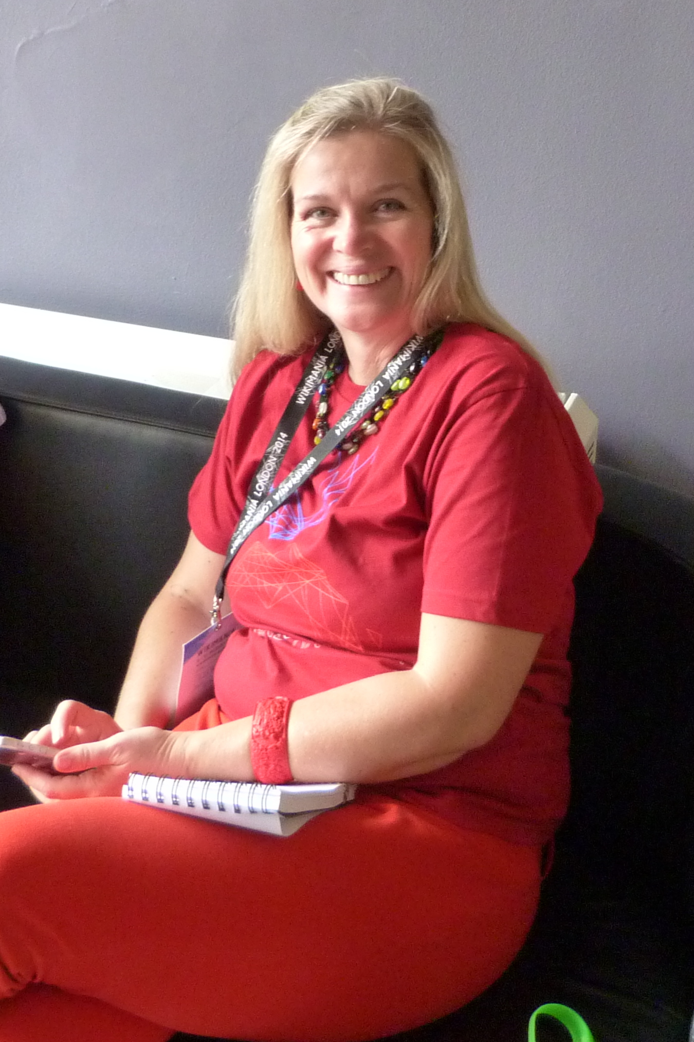 At the Barbican, Frobisher Rooms